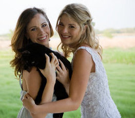 Barbara Pierce Bush and Jenna Bush with India the Cat on Jenna's wedding day.